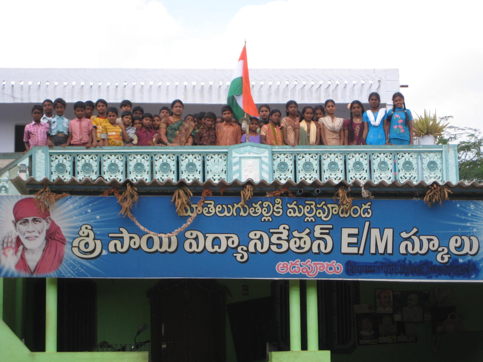 Sri Sai Vidyanikethan E.M. School, Adapur